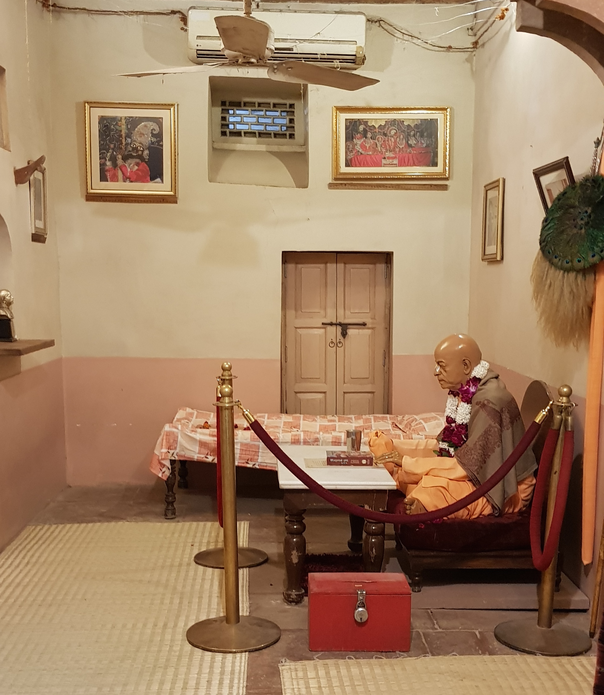 The ground floor room of Srila Prabhupada at Radha Damodar Mandir in Vrindavan where he stayed from 1962-1965 before going to the USA to preach the holy names of Lord on the instructions of his spiritual master Bhaktisiddhanta Saraswati Thakur.